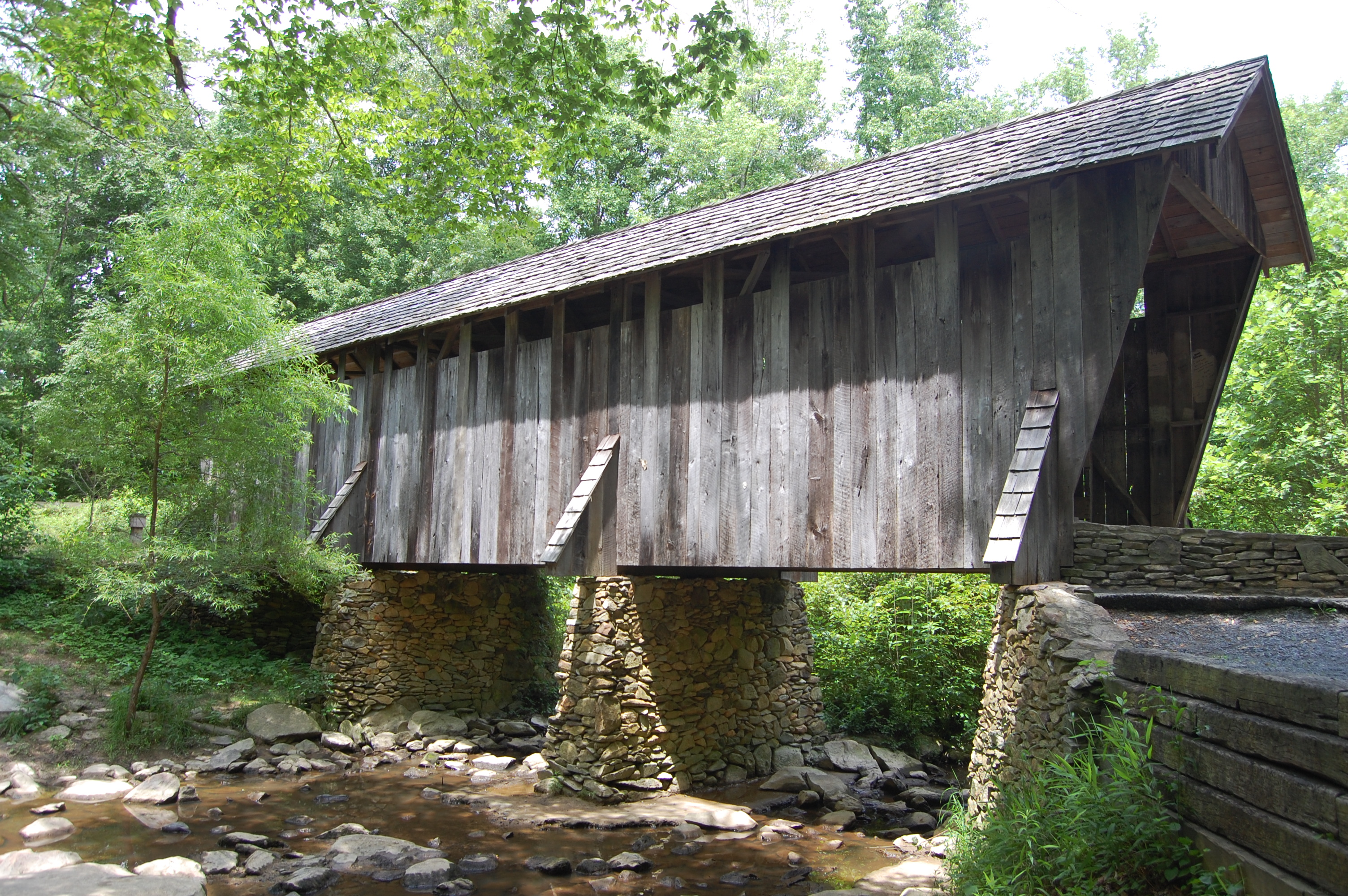 Located on the West Fork Branch of the Little River, within the Uwharrie National Forest, approximately 14 miles southwest of Asheboro, N.C., survives one of the two remaining covered bridges in the entire state of North Carolina. Most unique of all covered bridges in Randolph County, the Pisgah Bridge has survived the ravages of time and history. The 54’ length Pisgah Covered Bridge was built in 1911